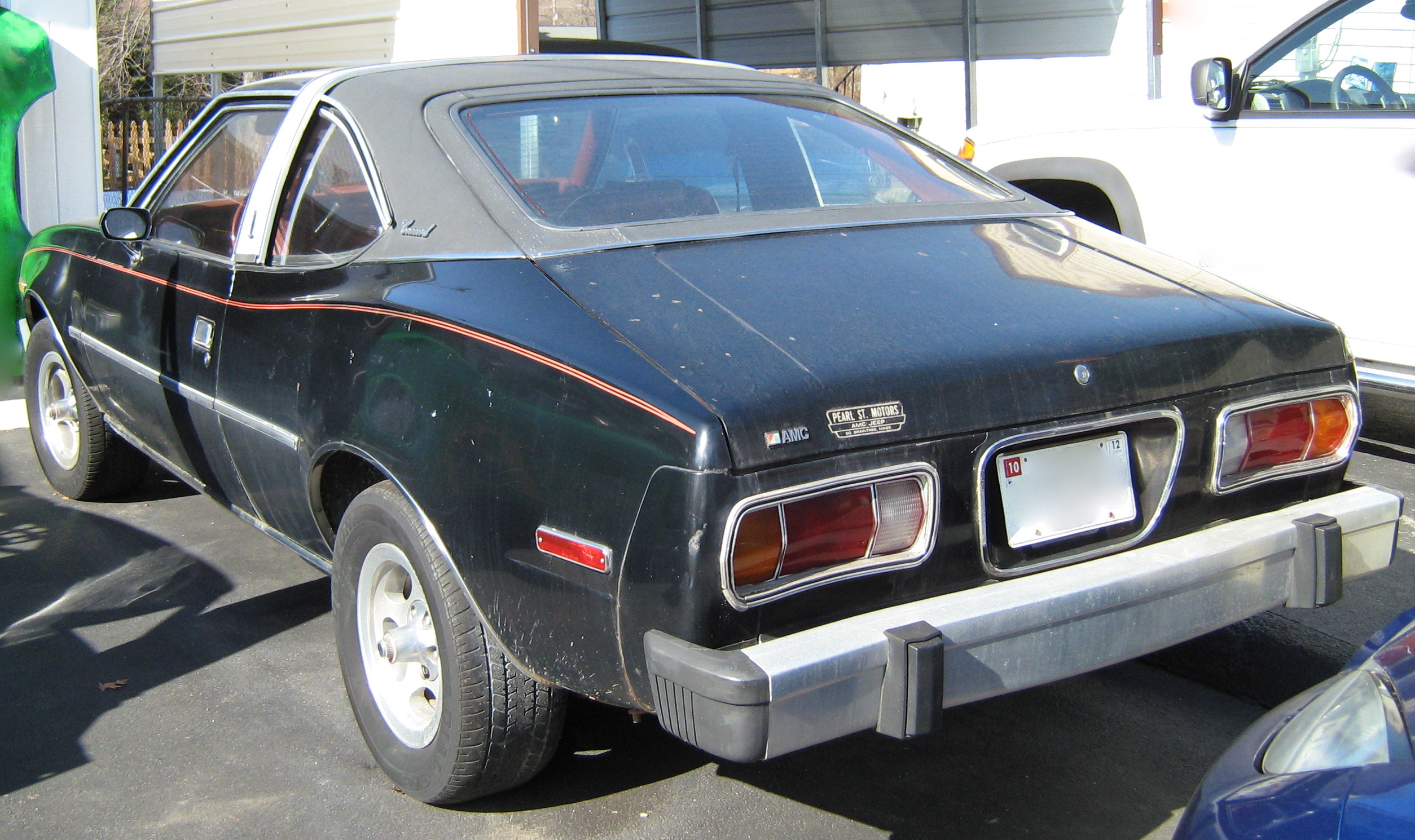 1979 Concord 2-door hatchback by American Motors Corporation (AMC), a compact-sized automobile. This is the D/L model that included as standard the vinyl roof trim with "targa" band, in addition to other convenience and comfort features such as individual reclining front seats, fold-down rear seat for extra cargo room that included cargo area skid strips, etc.